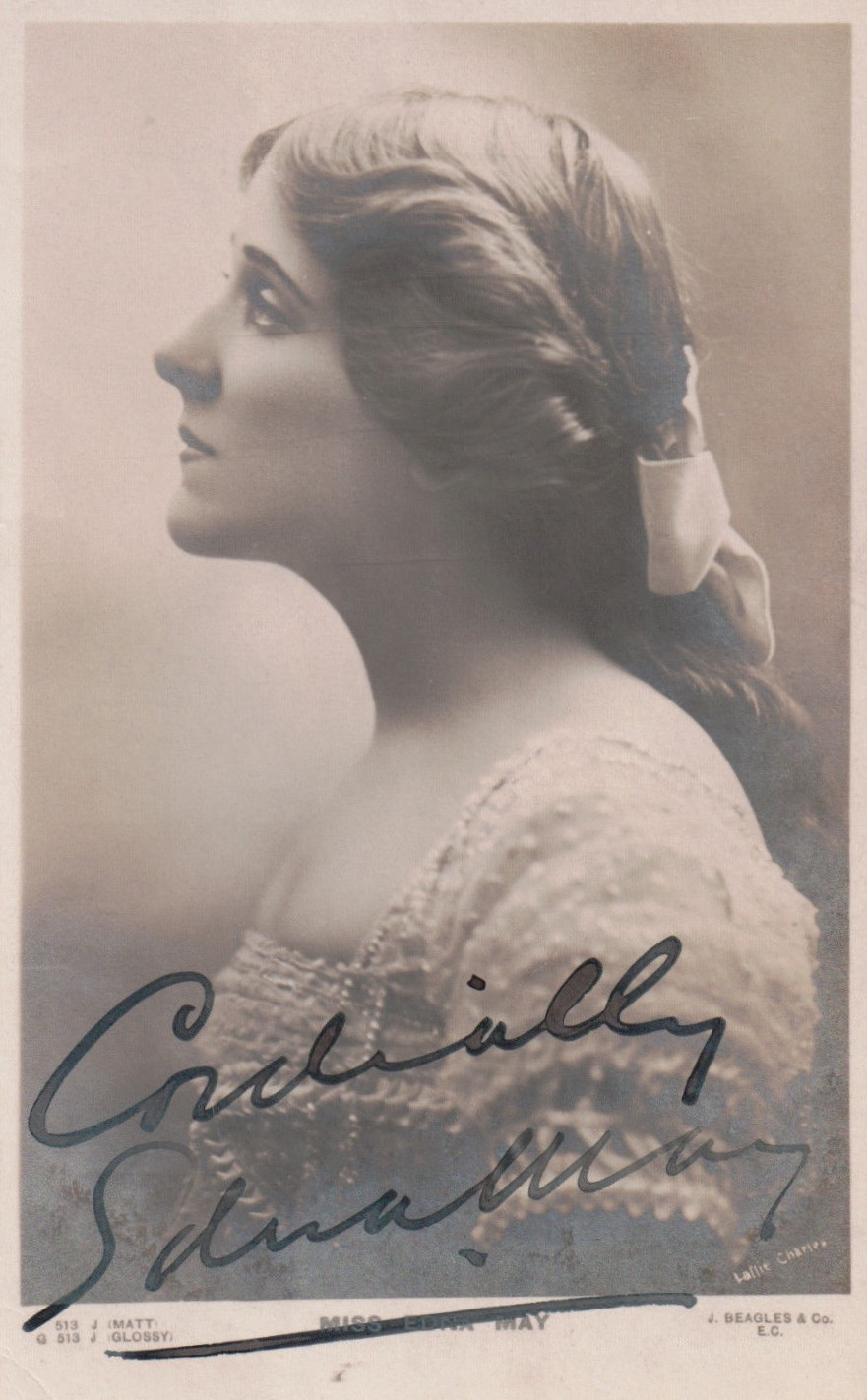 Edna May photographed by Lallie Charles. With an autograph